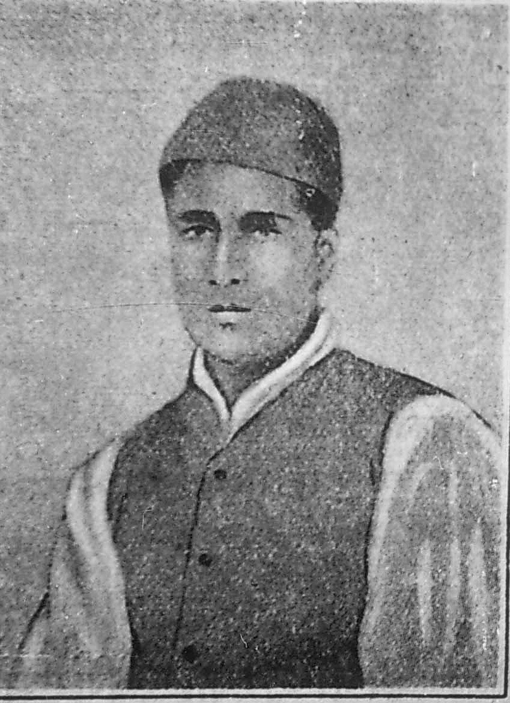 Gopal Singh Nepali (1902-1963), born in Kathmandu, writer of book "The Newars"; Bihari poet of Nepali descent; probably from Newari ethnic group